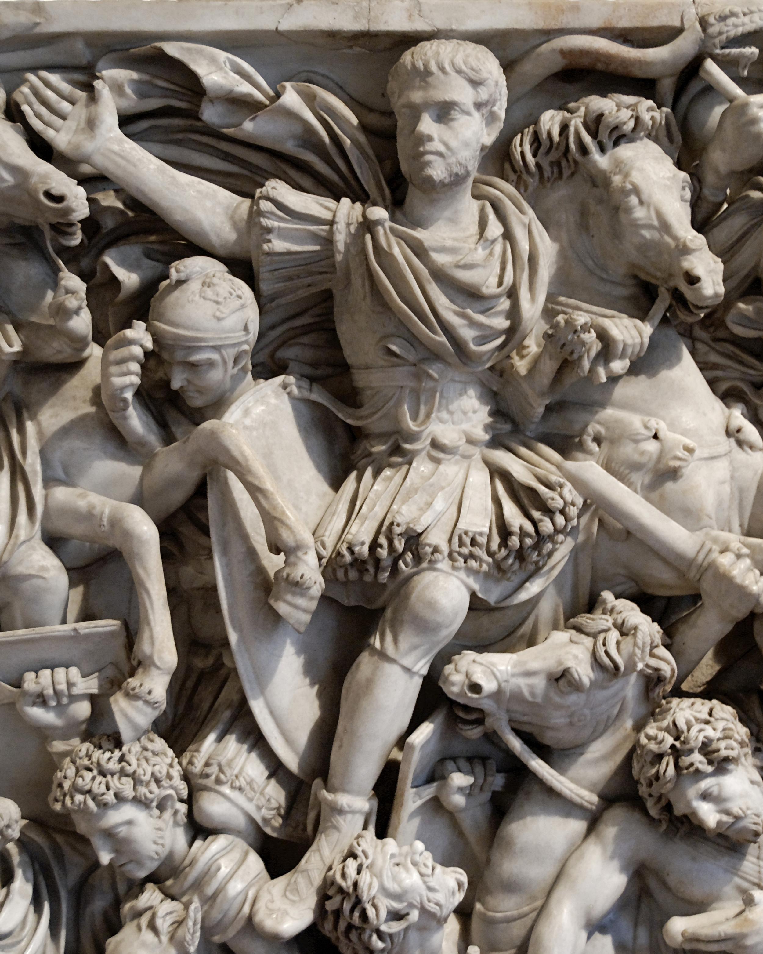 Roman general, disputed identification: perhaps Hostilianus or his elder brother Herennius Etruscus. Detail of the great Ludovisi sarcophagus, with battle scene between Roman soldiers and Germans. Proconnesian marble, Roman artwork, ca. 251/252 CE. Found in 1621 near the Tiburtina Gate in Rome.